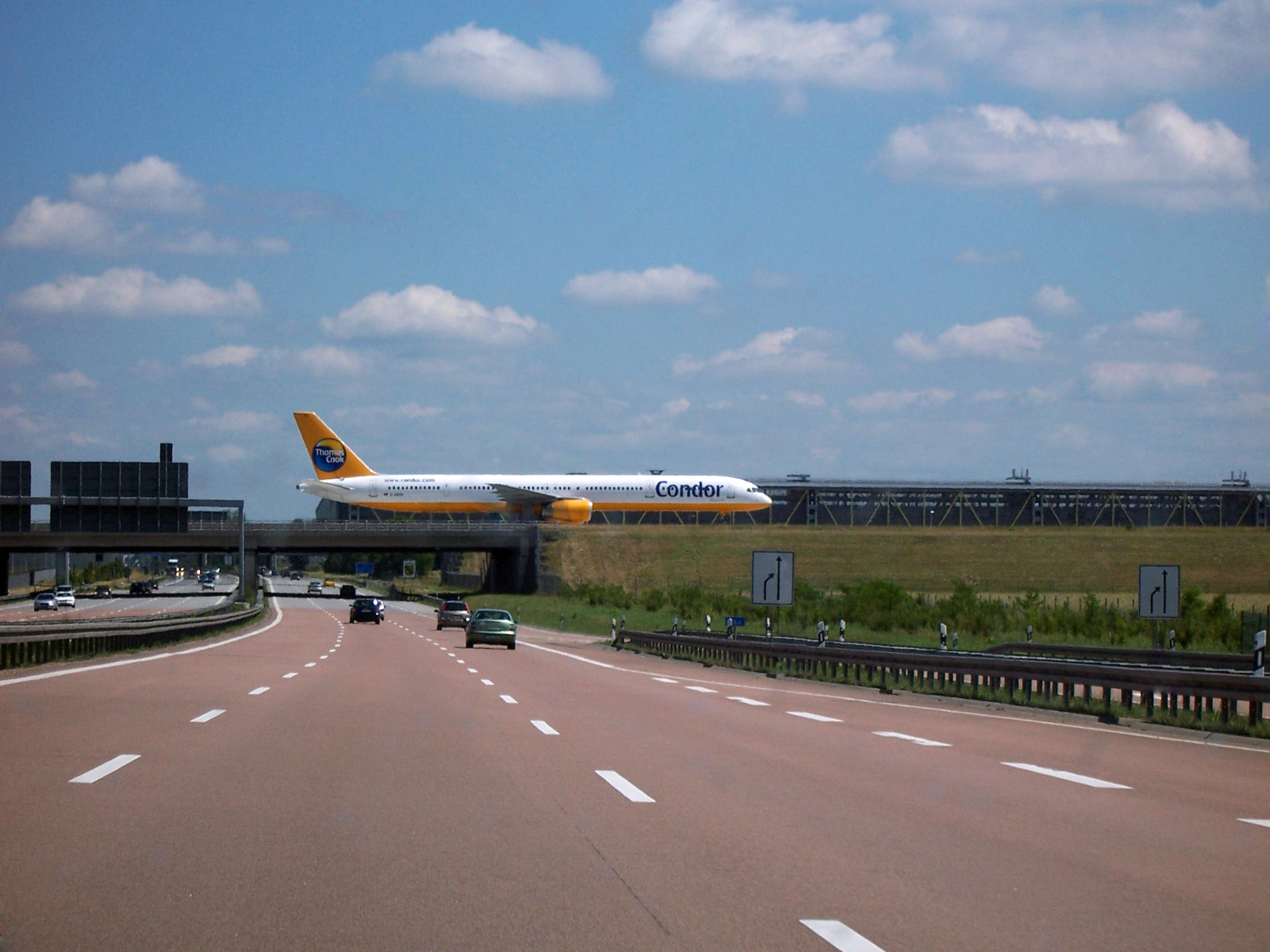 Boeing while crossing the rolling bridge west of the Leipzig/Halle Airport